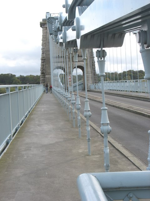 Entering on to the eastern walkway of the bridge from the Anglesey side